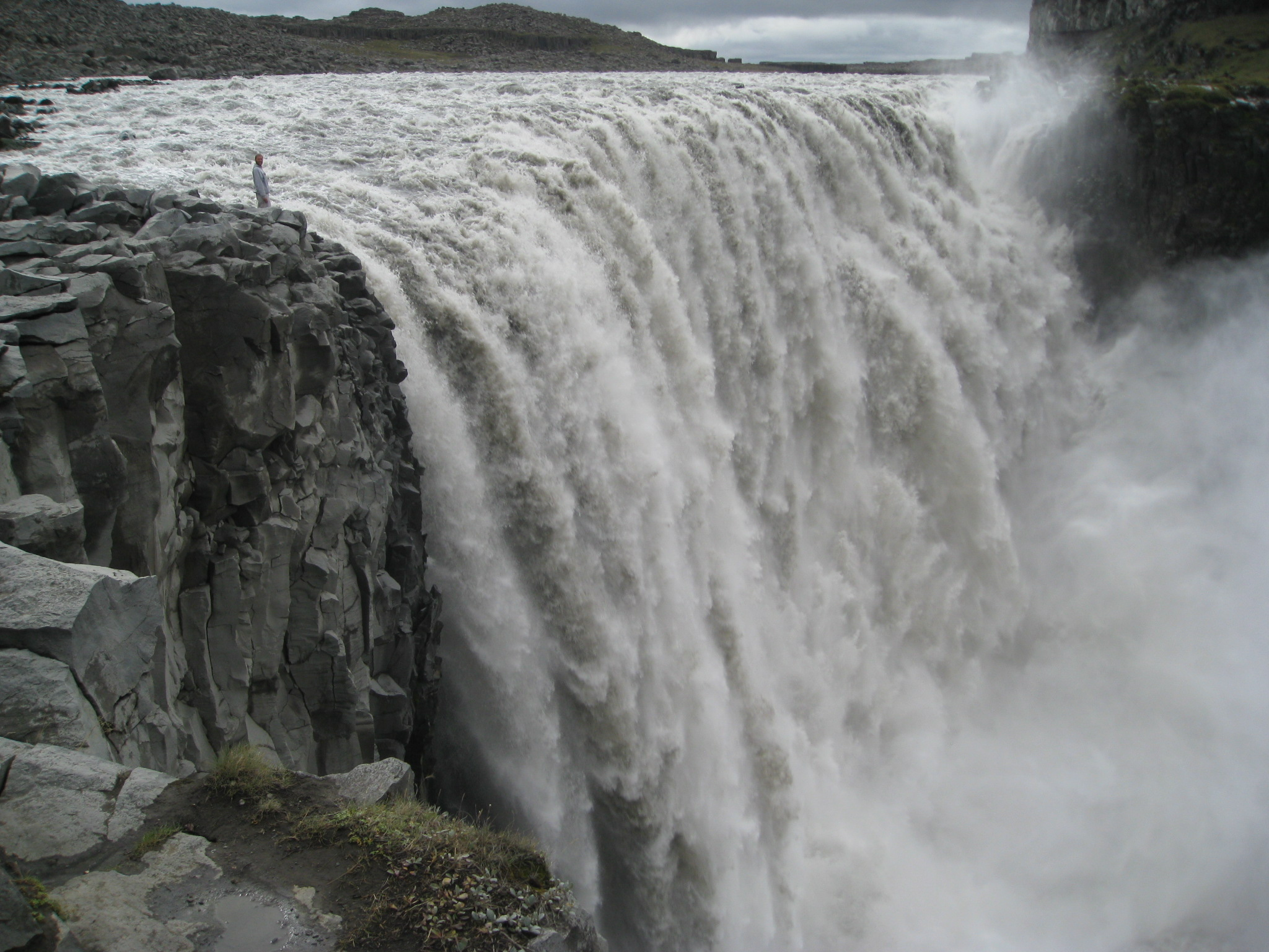 View of Dettifoss, the largest waterfall in Europe, in its entirety with a person next to it for scale. The waterfall is located in the Jökulsárgljúfur National Park in the northeast of Iceland. Photo made by Tim Bekaert.